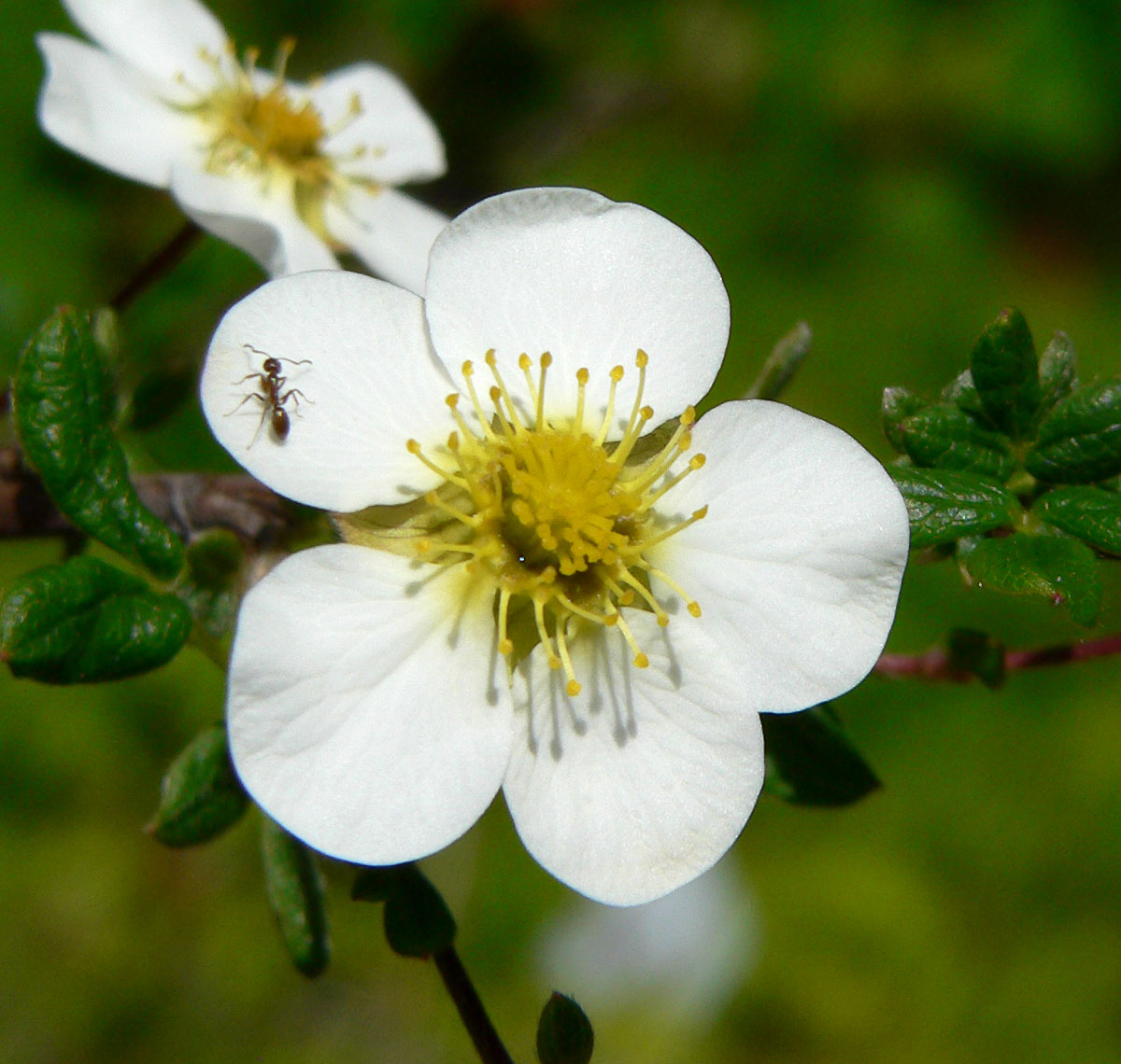 ' (syn. Potentilla davurica) at the University of California Botanical Garden, Berkeley, California